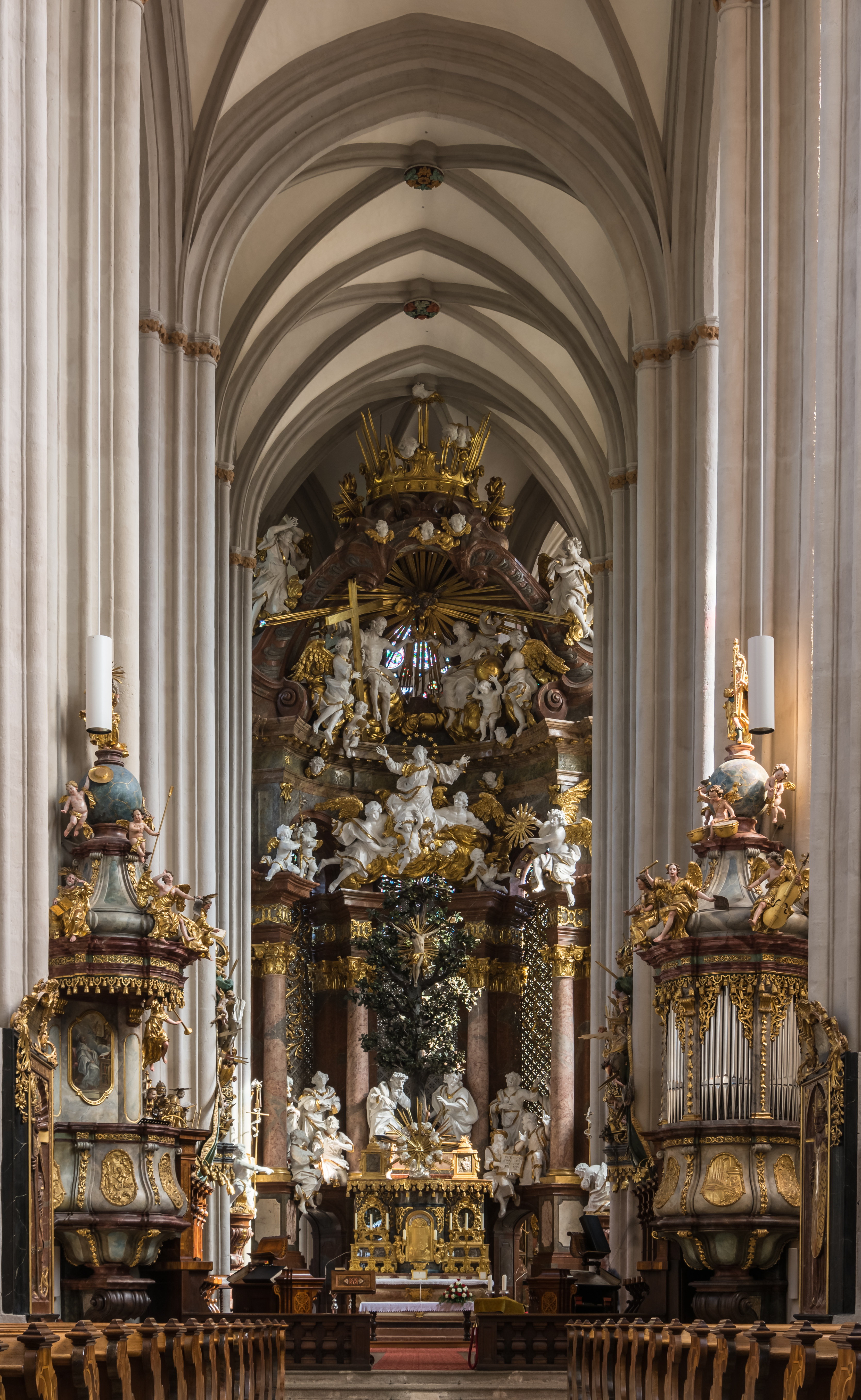 High altar of Zwettl Abbey Church, Lower Austria